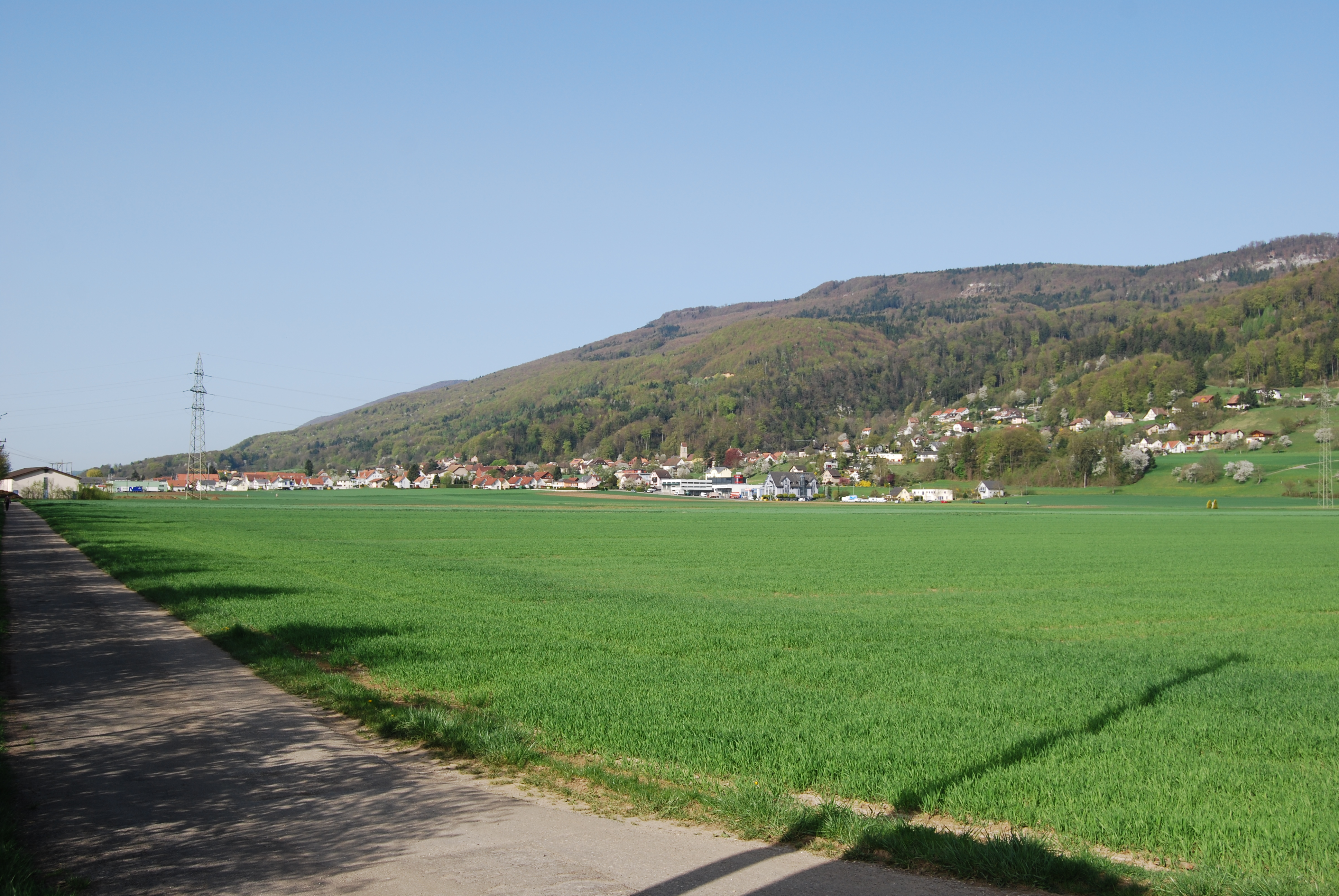 Oberbuchsiten, canton of Solothurn, SwitzerlandEsperanto: Oberbuchsiten, Kantono Soloturno, Svislando